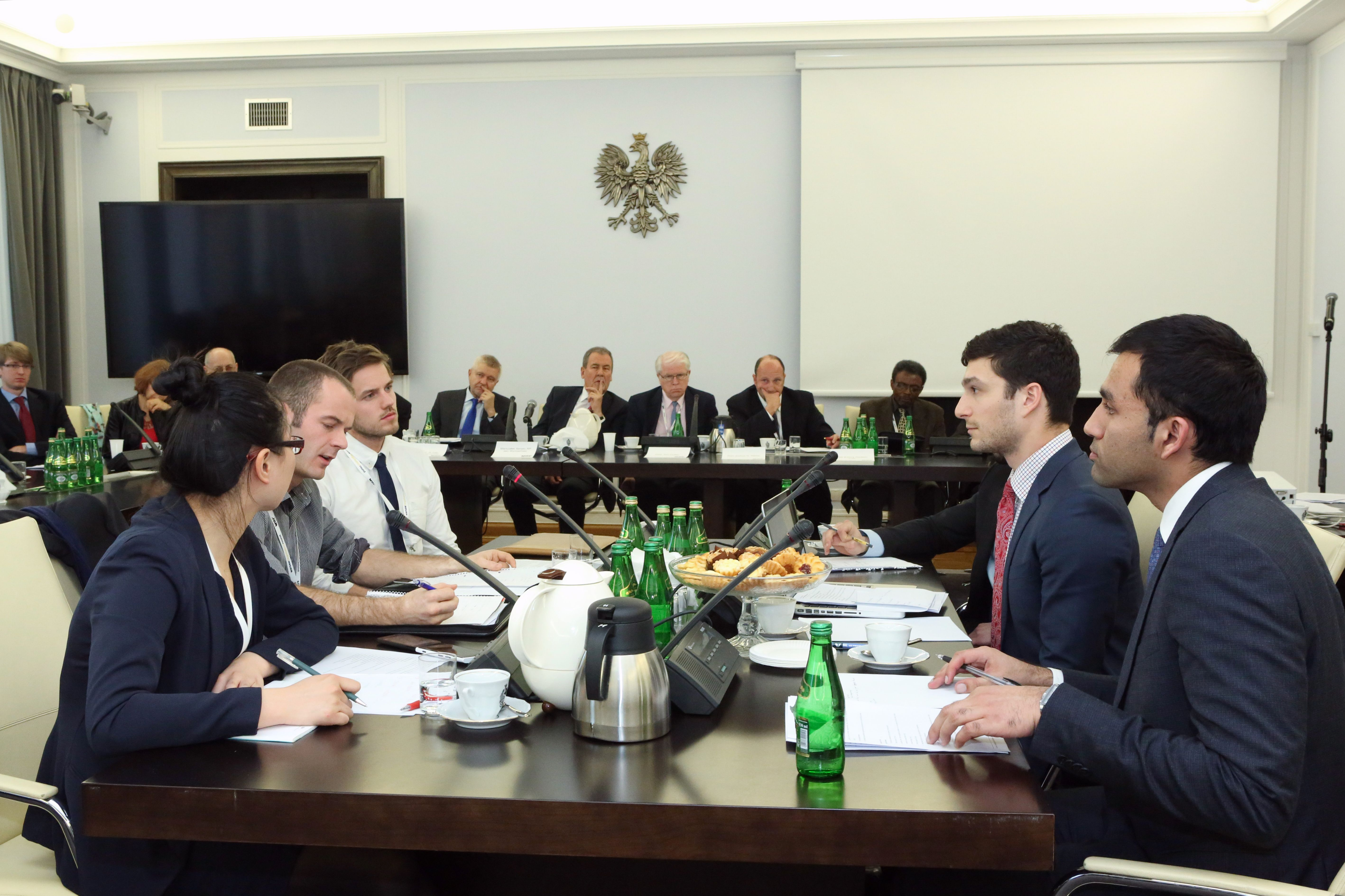 5th International Negotiation Tournament – Warsaw Negotiation Round in the Polish Senate. Pictured: students from University of Tromsø from Norway (left) and University of Toronto from Canada (right)